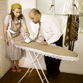 From the series "The Perfect Housewife’s Wardrobe" By Maria Ezcurra, with the collaboration of Pedro Orozco. Photo by Gerardo Montiel Klint